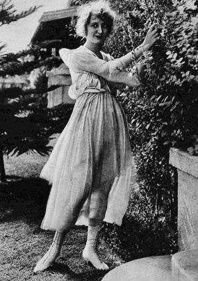 Rhea Mitchell in a publicity photo, ca. 1920